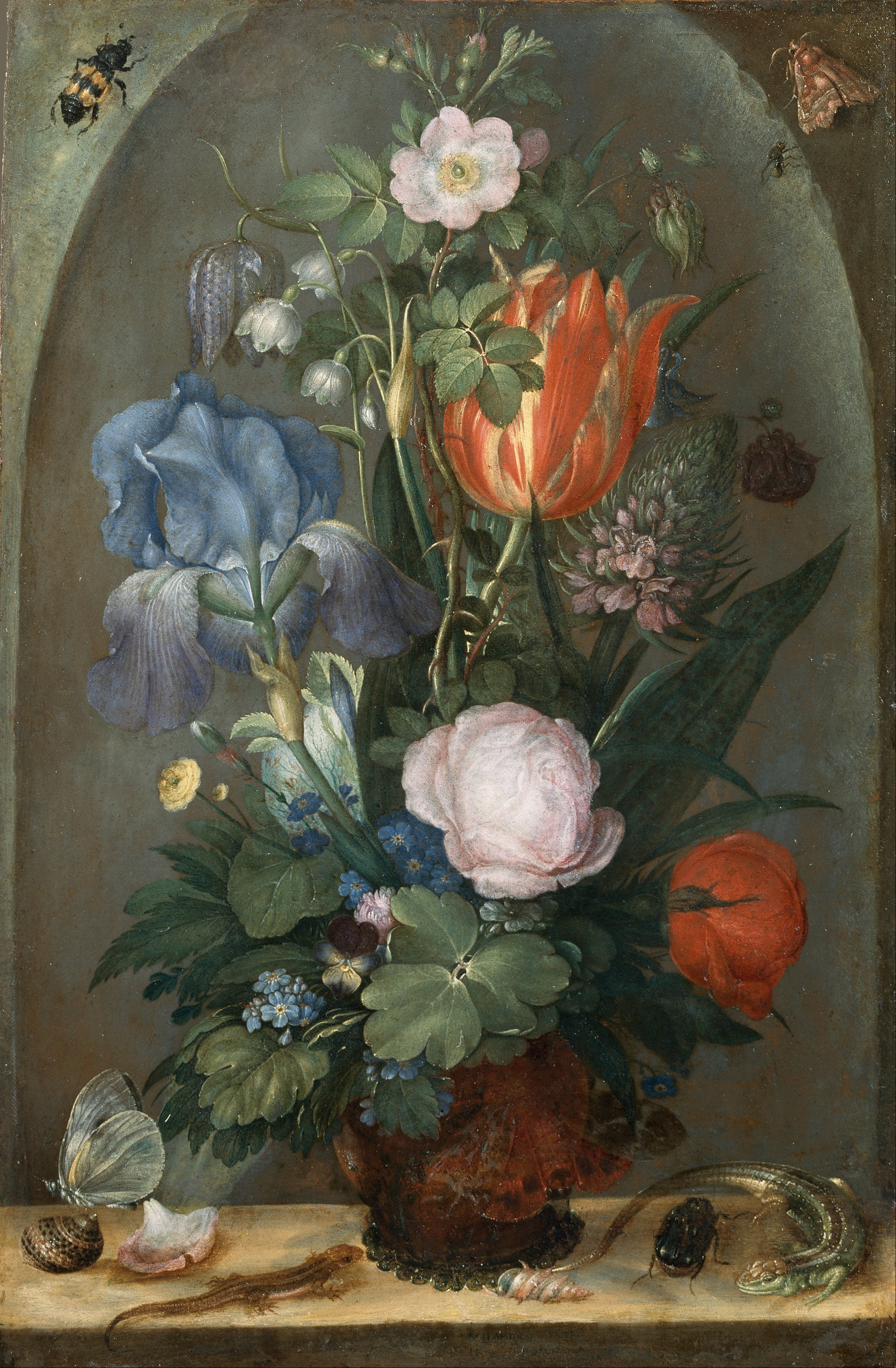 At first sight this bouquet seems to have been painted from life. However, it is composed of plants that flower in different parts of the year. The bouquet is lit from different angles, so that more depth is created. The colors are bright and light. Until 1982 the date was read as 1601 or 1604. In 1982 Segal was the first to read it as 1603.